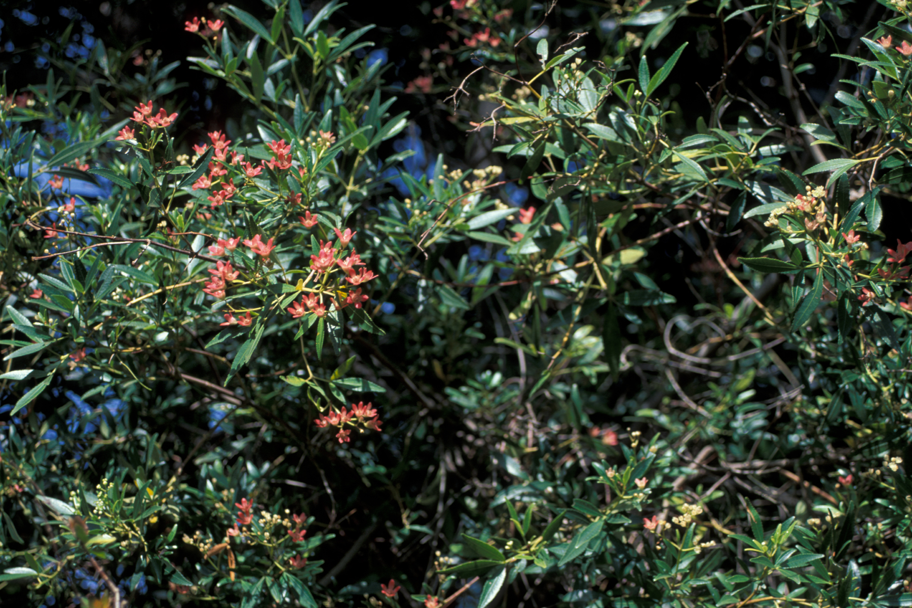 Ceratopetalum gummiferum (flowers). Location: Maui, Kula Experiment Station